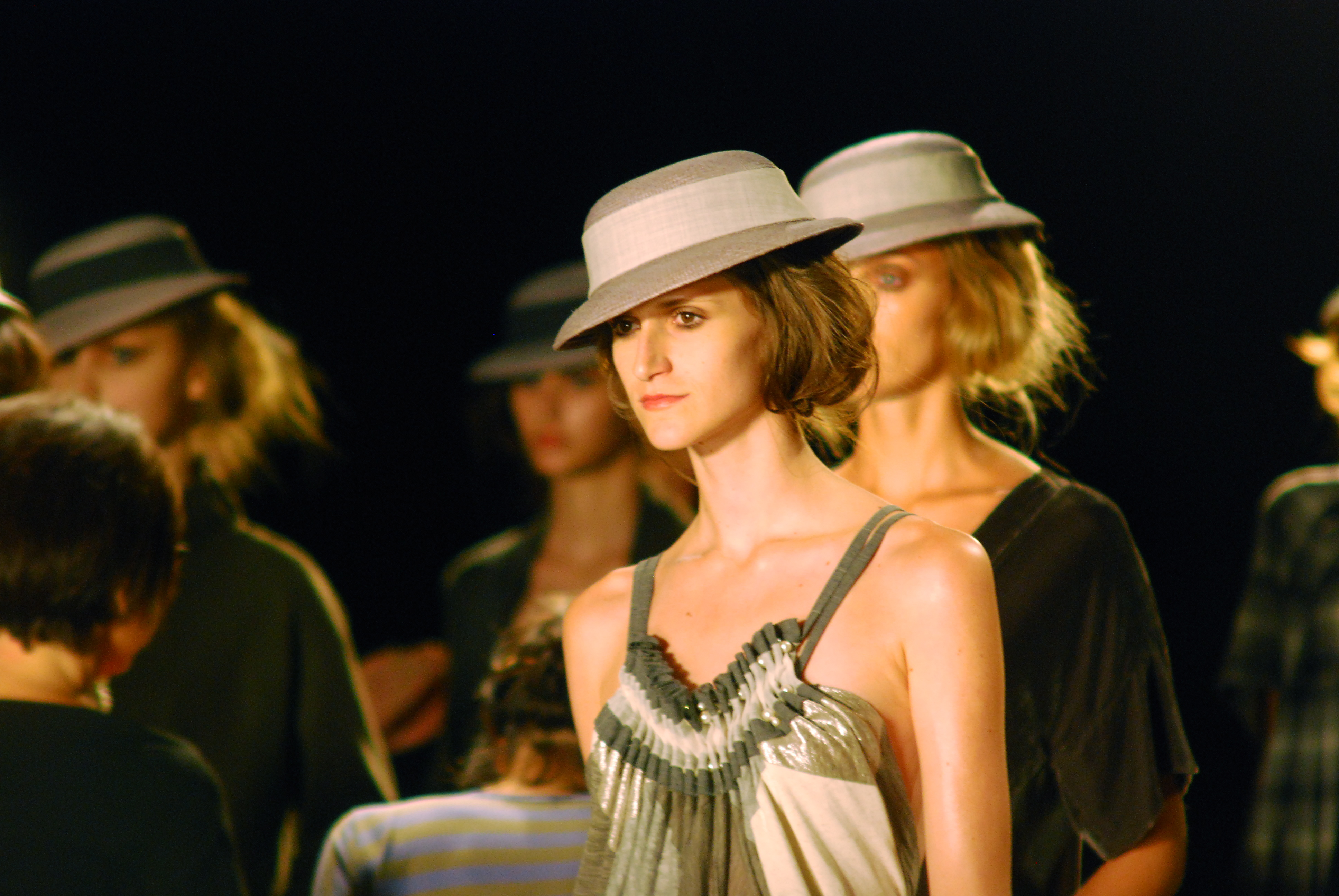 Daiane Conterato modeling for Huis Clos, Fall 2008 Sao Paolo Fashion Week